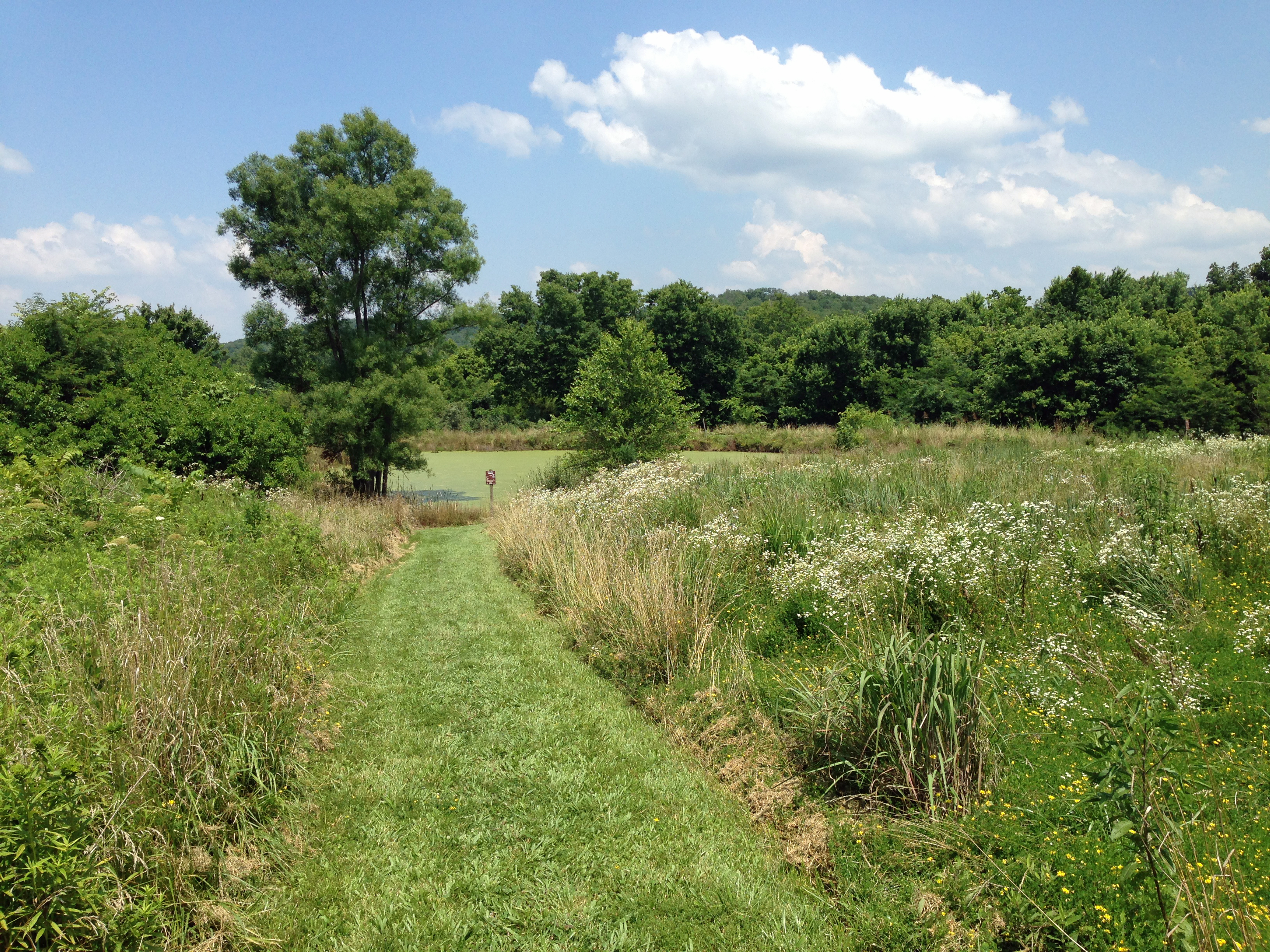 A trail through the meadow to a pond in Young Conservation Area, Missouri.